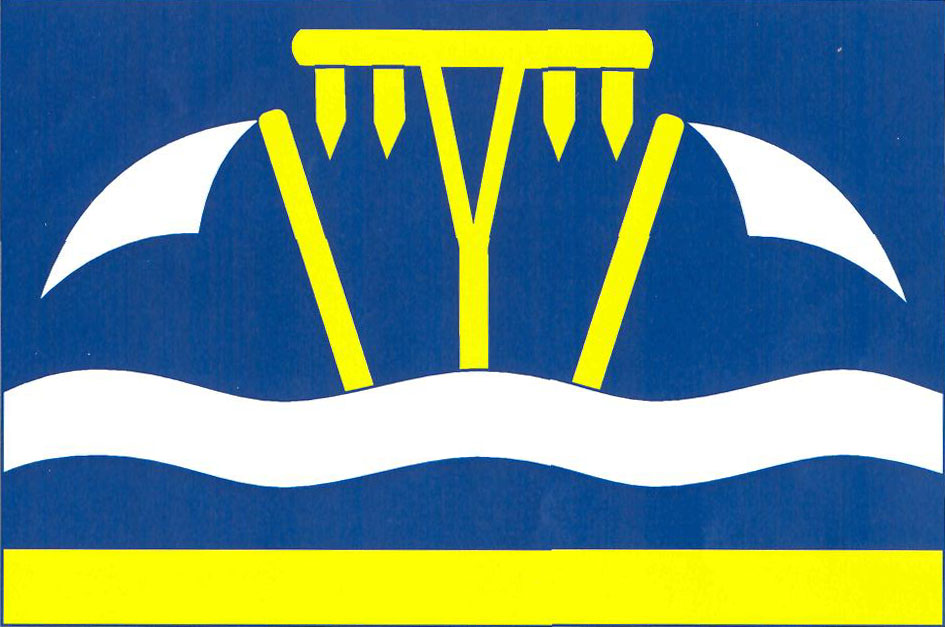 Municipal flag of Kejžlice village, Pelhřimov District, Czech Republic.